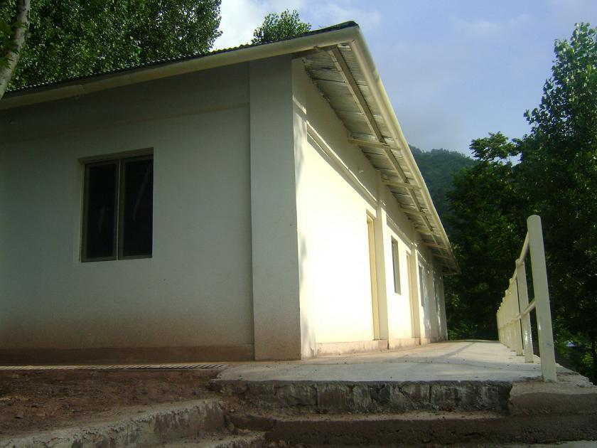 Primary Section of Government Boys High School Hotar, Tehsil Haveli, District Bagh, AJK, Pakista